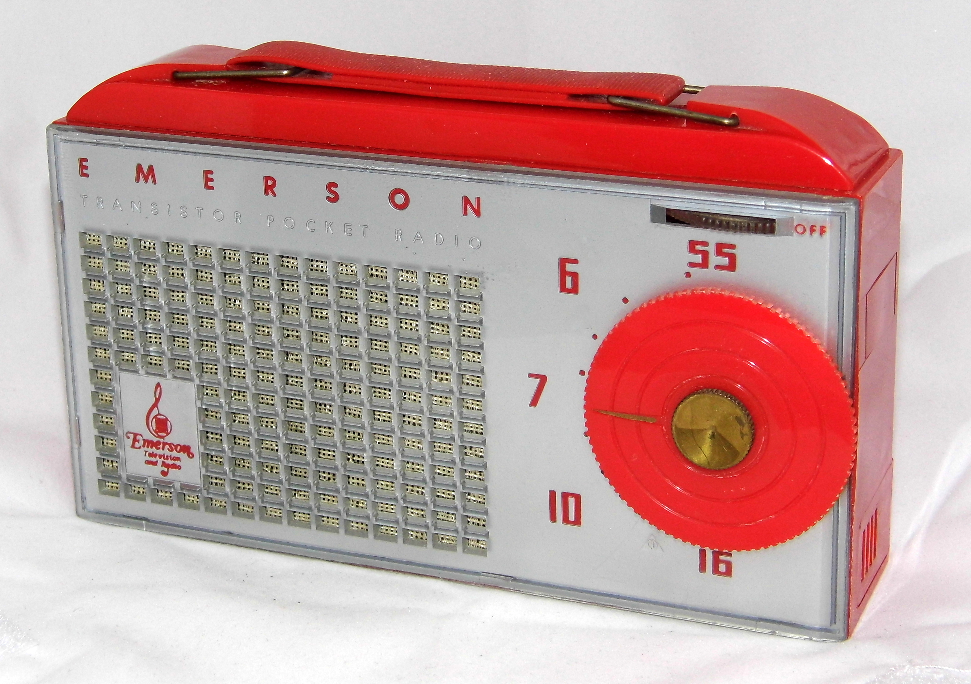 Vintage Emerson 838 Hybrid Pocket Radio (2 Transistors & 3 Subminiature Tubes), Broadcast Band Only (MW), Made In USA, Circa 1955